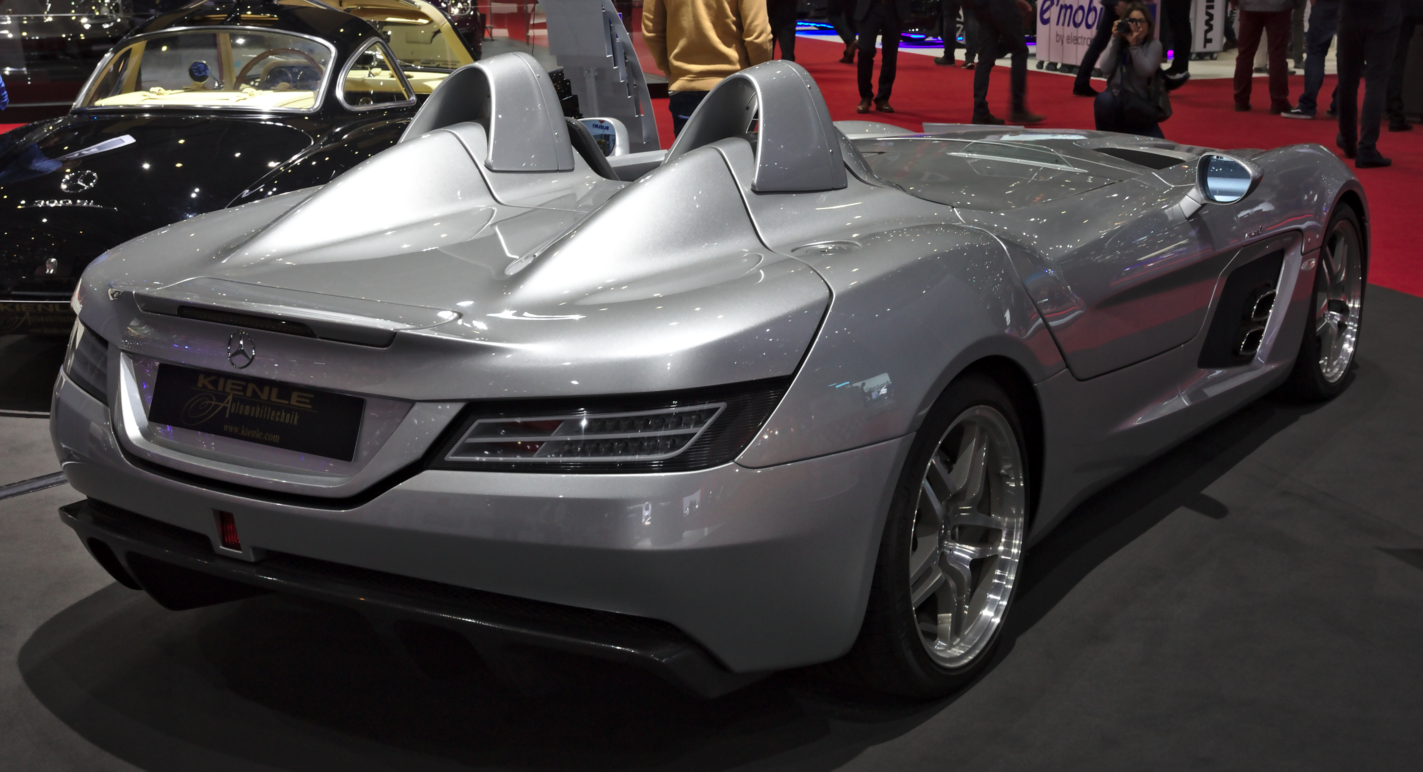 Mercedes-Benz SLR Stirling Moss at Geneva Motor Show 2019